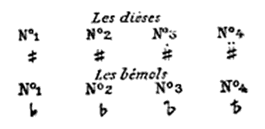 The various sharp and flat accidentals originally proposed by Rauf Yekta for use in Turksih music.